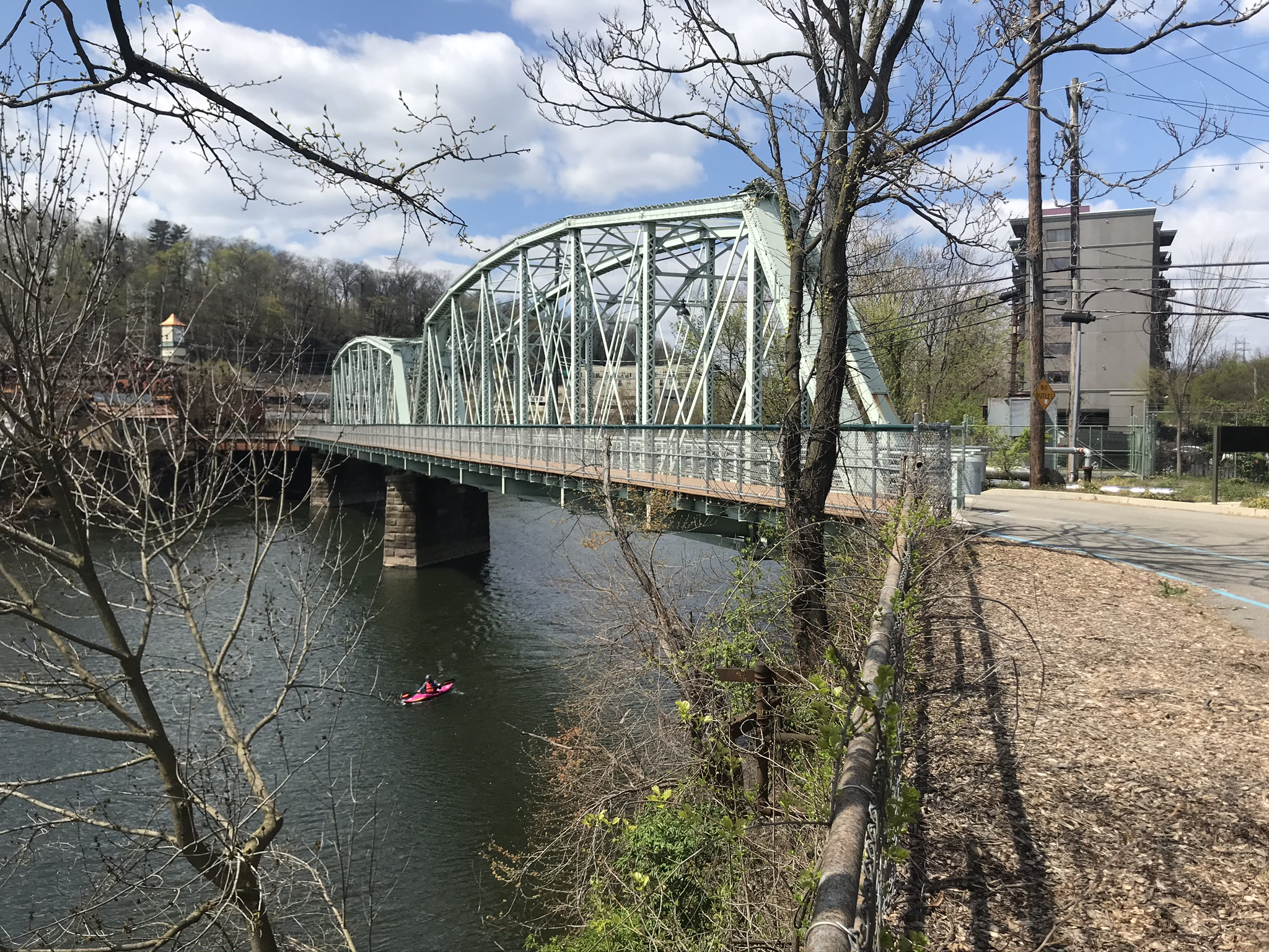 Pencoyd Bridge over the Schuylkill River in Manayunk, Philadelphia, Pennsylvania